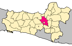 Map of Semarang county, Central Java province, Indonesia